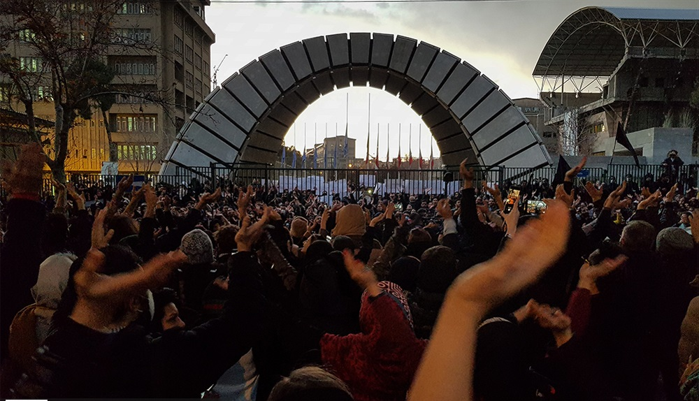 Protests against Ukraine International Airlines Flight 752 shot down by Sepah in front of Amir Kabir University